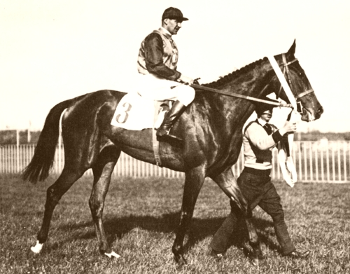 Nereide (GER), foaled in 1933, was an outstanding Thoroughbred racemare.